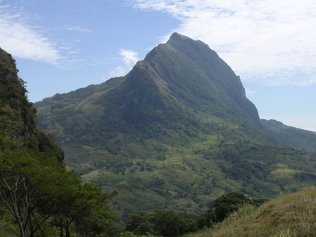 The steep, knife-edged Mt Leolaco from the Maliana-Suai road